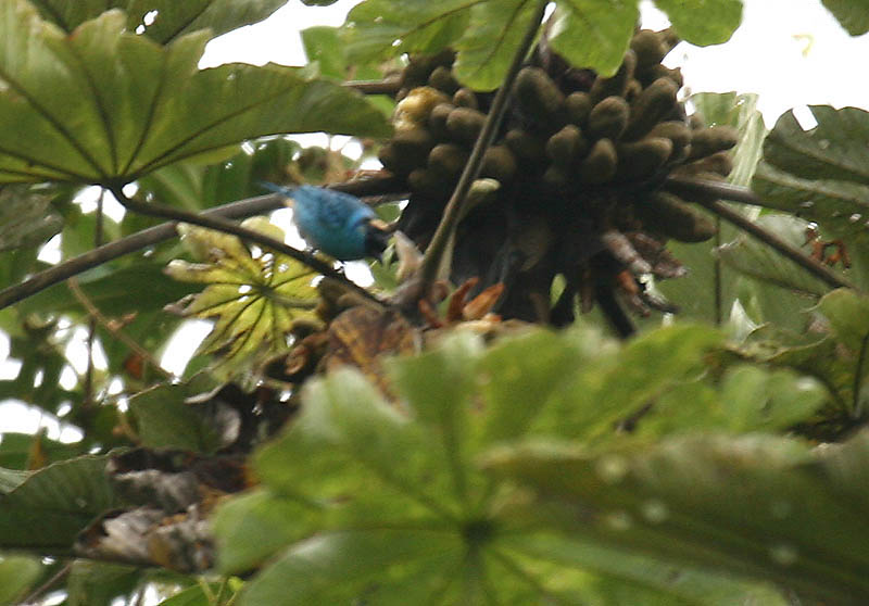 Golden-naped Tanager (Tangara ruficervix) at Upper Tandayapa Valley, NW Ecuador.